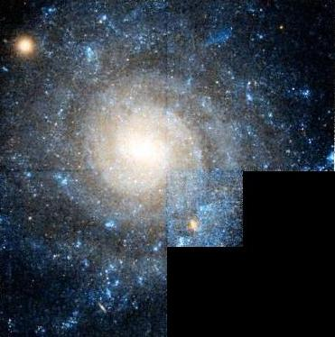 IC 5332 - Hubble Space Telescope - An archive to detect the progenitors of massive, core-collapse supernovae - HST Proposal 9042